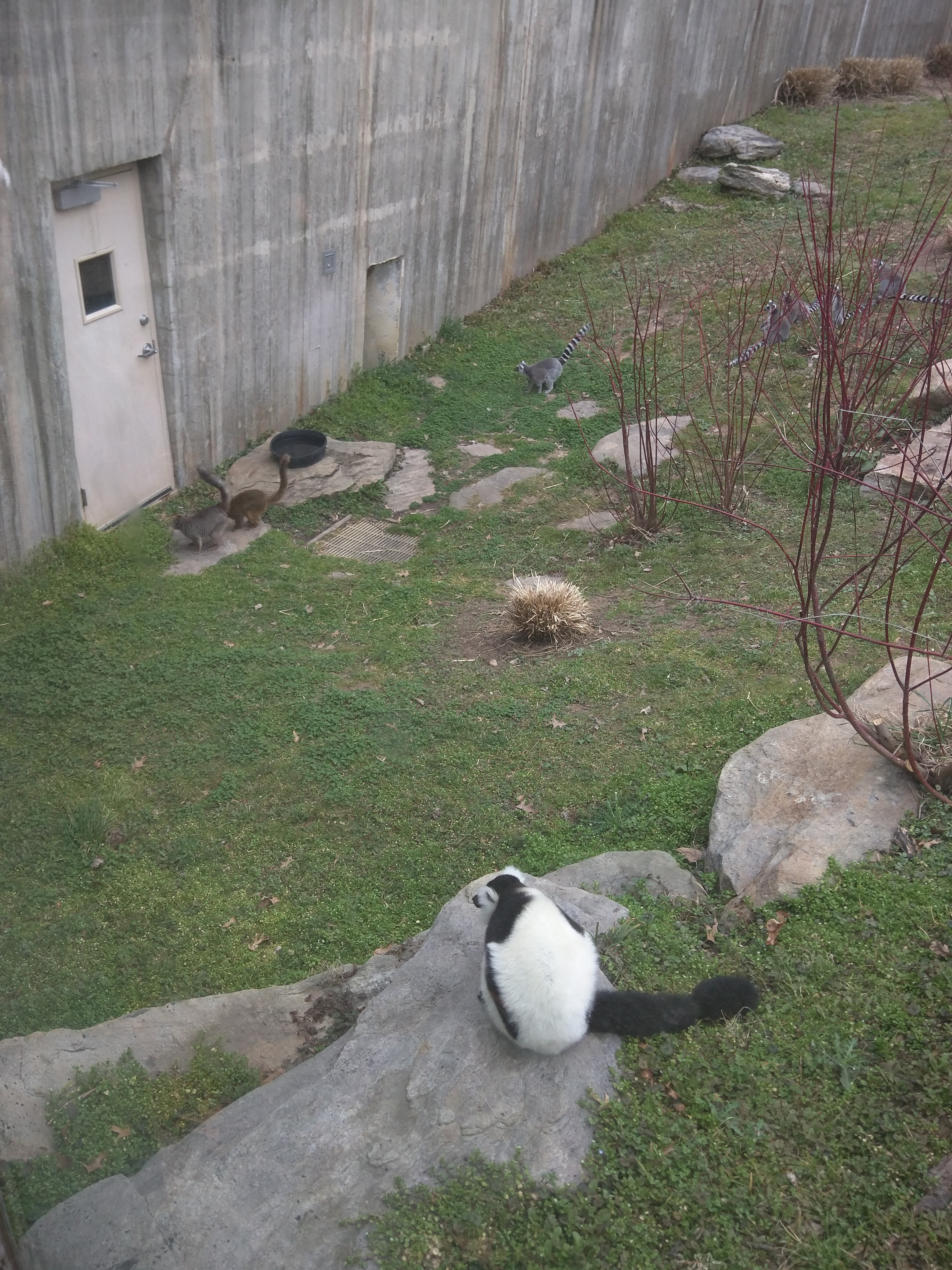 Lemurs at the National zoo